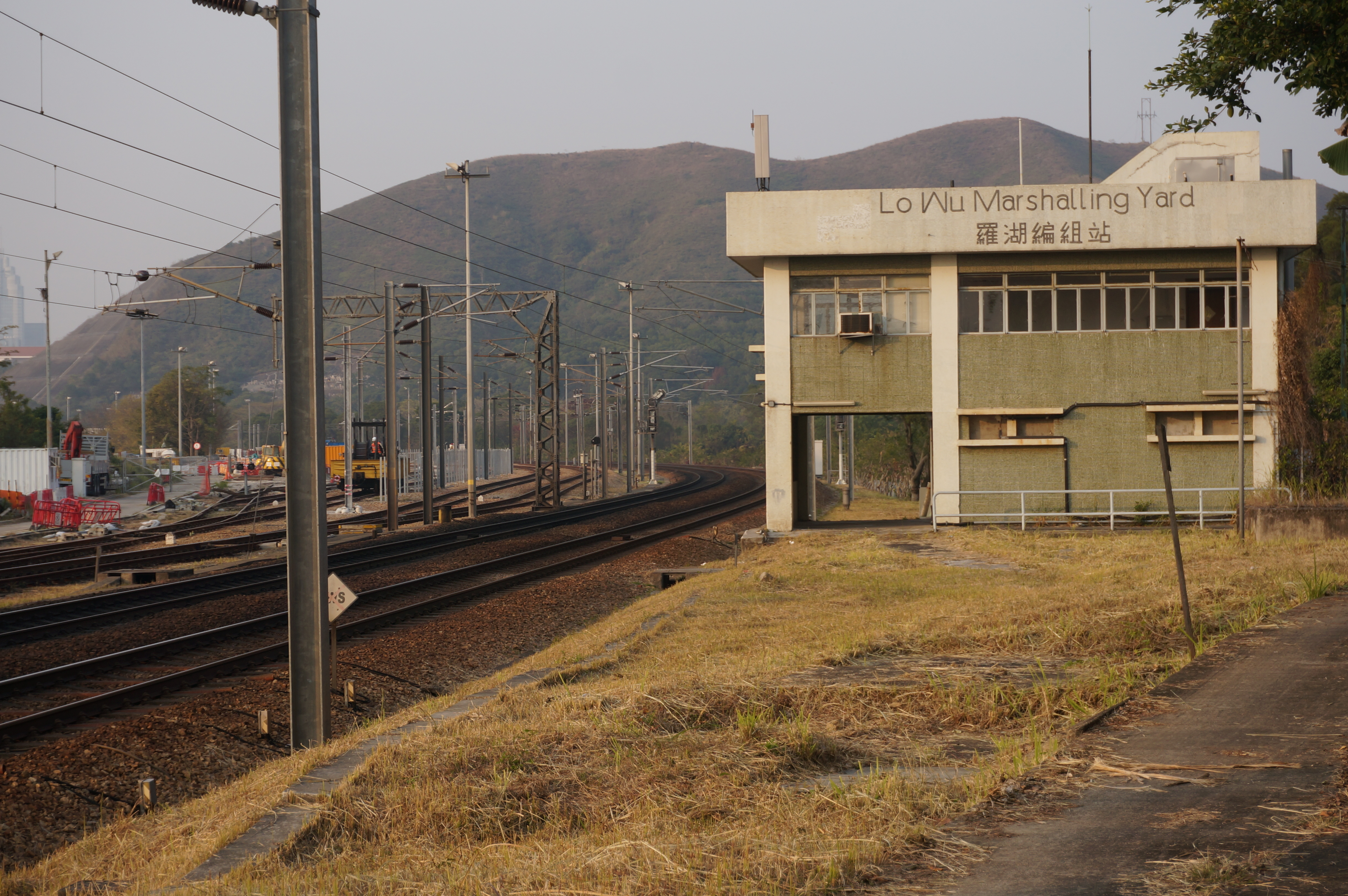 Exterior of Lo Wu Marshalling Yard, MTR East Rail Line 中文（香港）: 港鐵東鐵線羅湖編組站外貌